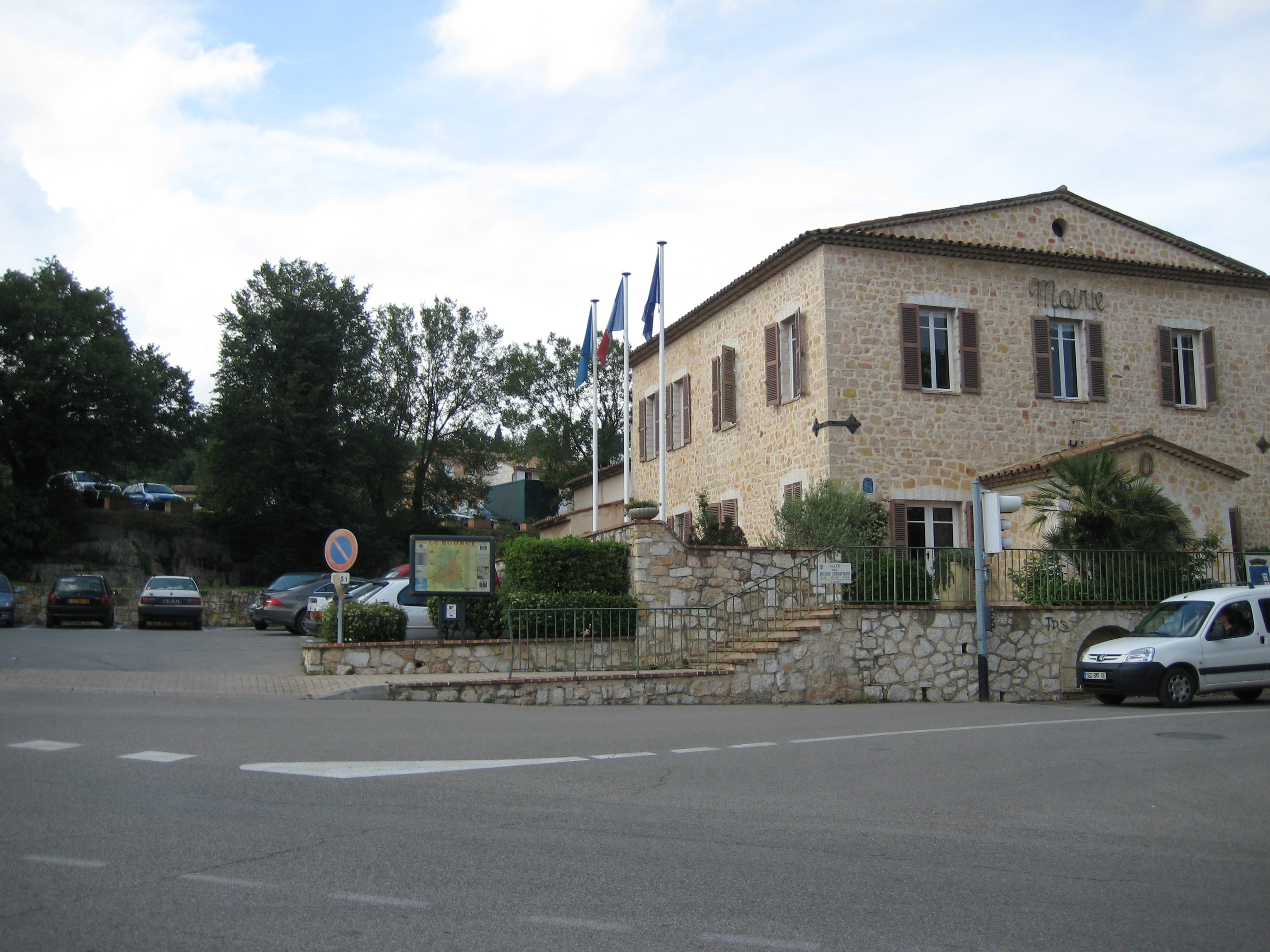 Center of Le Rouret in the départment Alpes-Maritimes, PACA, France